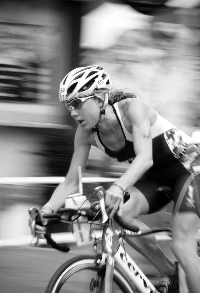 A photo of Chrissie Wellington competing in the the 2008 Frankfurt Ironman triathlon.